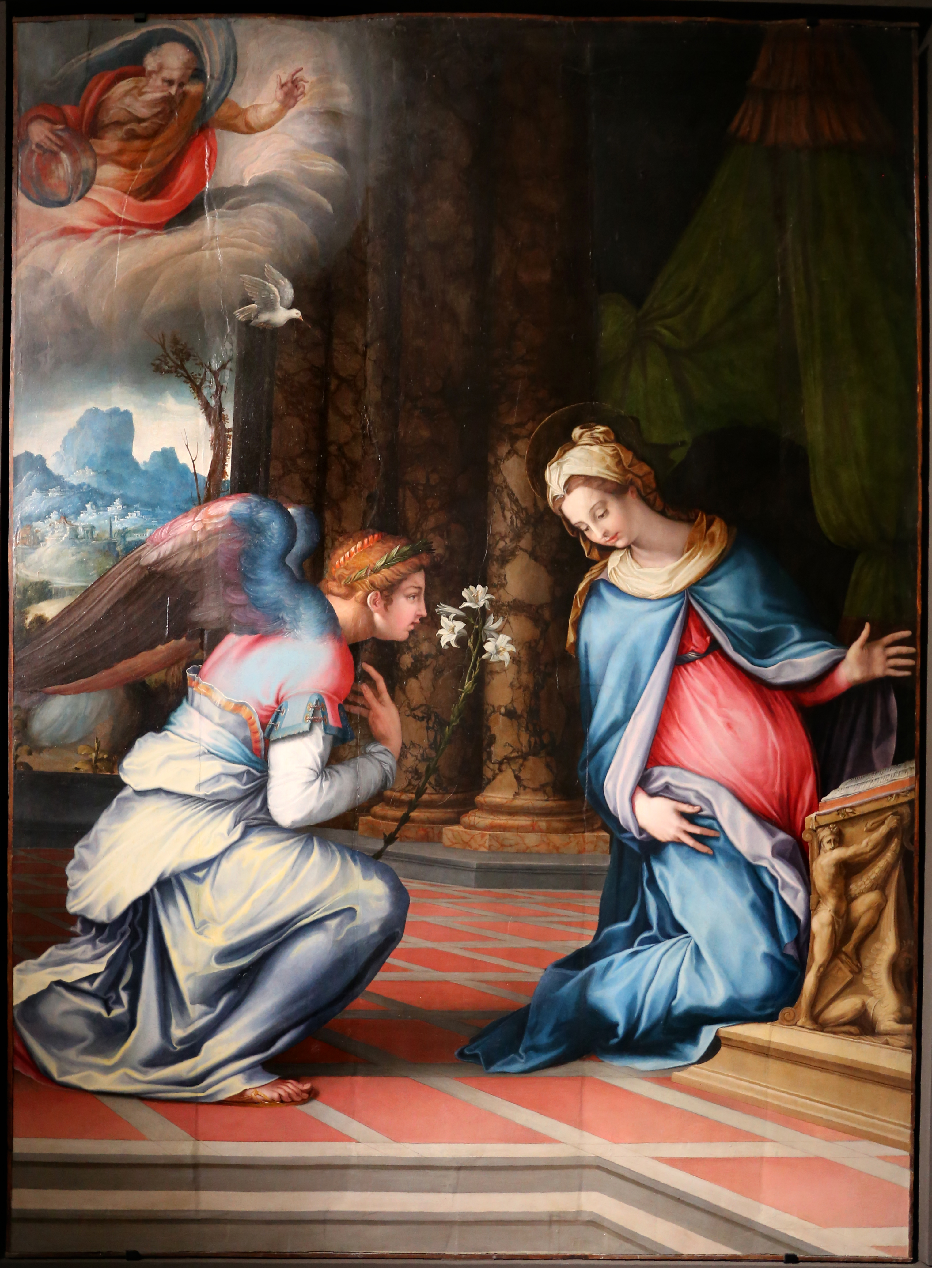 Annunciation by Francesco Salviati (Rome)